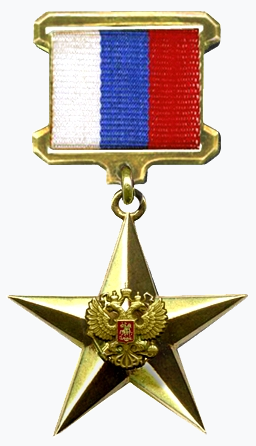 The Gold Star of Hero of Labour of the Russian Federation Licensing Категория:Изображения:Государственные награды Российской Федерации